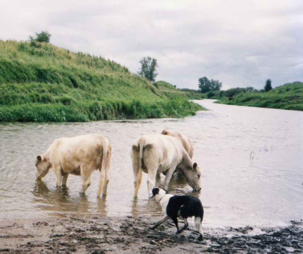 The River Brosna in 1993, showing typical high banks resulting from Arterial Drainage Scheme works of the 1940s and 1950s.